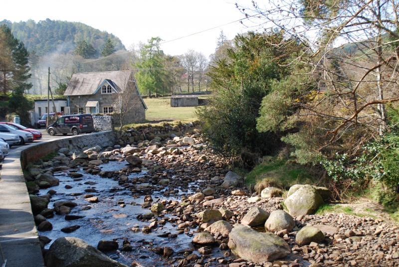 Channelisation on the River Glendasan, Wicklow Mountains, Ireland.